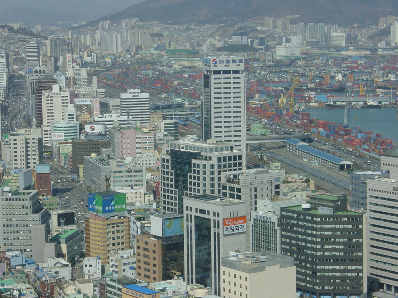 Busan port as seen from Busan tower